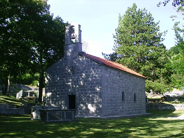 Komovi Mountain in the SE part of Montenegro